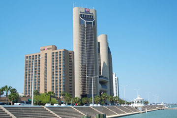 The area adjacent to the seawall in downtown Corpus Christi, TX is known as the bayfront. Shrimp boats tie up here as well as yachts in the city's marina. The city's fourth of July celebration is held here with fireworks being shot out over the water.